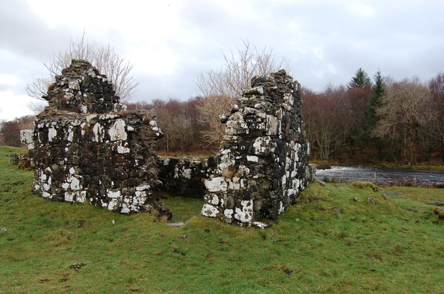 Chapel on Saint Columba's Isle Although St. Columba is generally better known for his association with Iona, this small island in the River Snizort was where he founded the cathedral of the bishops of the Isles. This was the centre of Christianity in the Hebrides from 1079 to 1498.